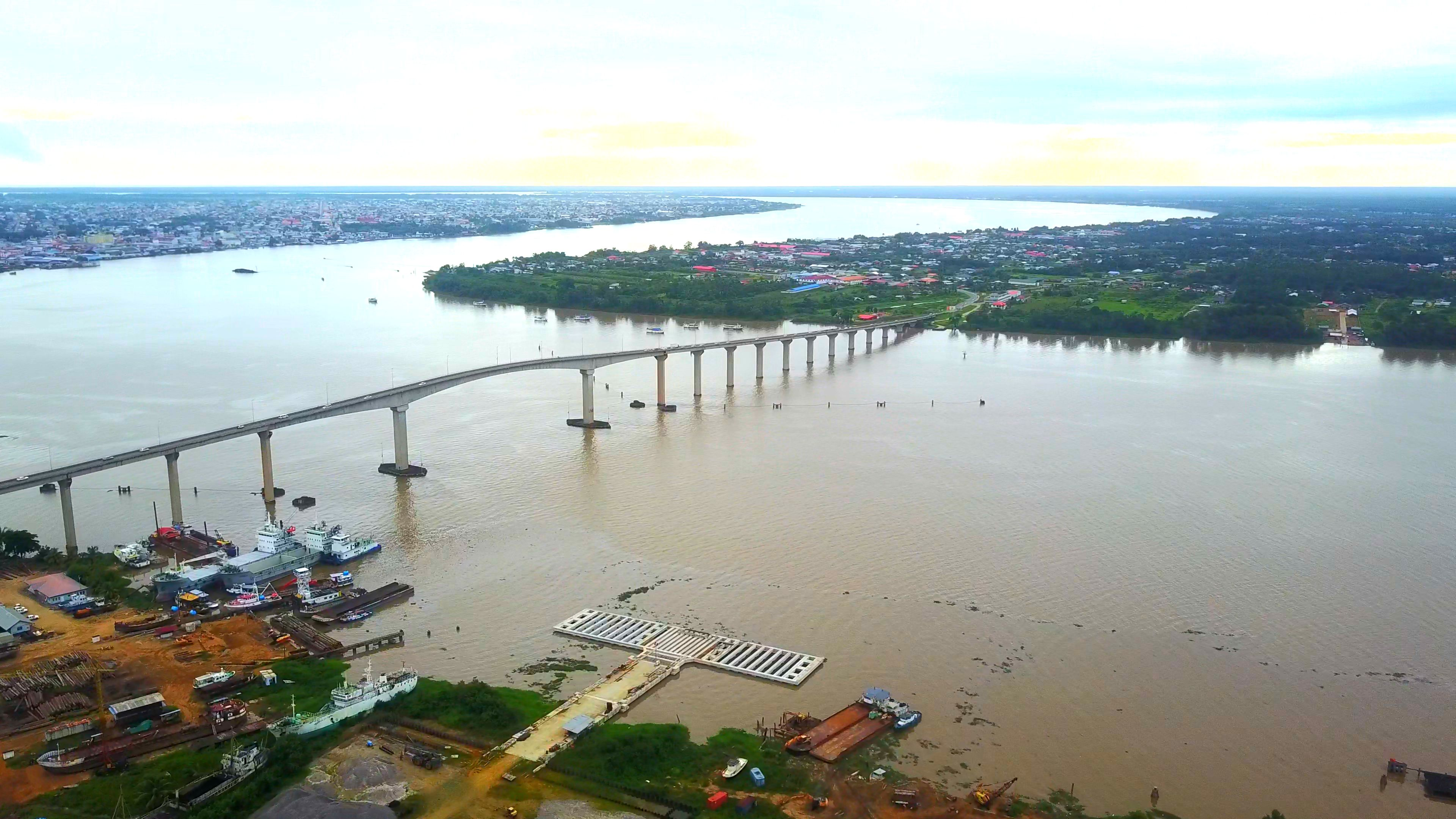 Jules Wijdenbosch Bridge picture from the air